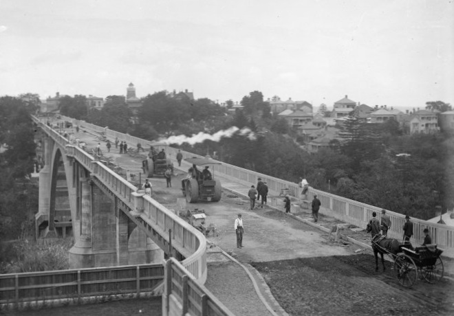 Finishing works on Grafton Bridge in Auckland City, New Zealand, ca 1910. Looking northwest towards the modern-day Auckland CBD. Extended information on origin webpage reads: Grafton Bridge, Auckland, under construction [ca 1910] / Reference number: 1/2-000889-G 1 b&w original negative(s). Dry plate glass negative 4.5 x 6.5 inches. Horizontal image. / Part of Price, William Archer, d 1948 :Collection of post card negatives (PAColl-3057) Photographic Archive / Scope and contents: View of Grafton Bridge, Auckland, under construction, circa 1910 taken from the Park Road end. Graves can be seen in Symonds Street Cemetery on the lefthand side in the gully below the bridge. Houses can be seen on the righthand side (St Martin's Street and Symonds Street). Men are working on the roadway, some on steam rollers, and pedestrians are walking across the bridge while it is still under construction. A horse and carriage is in the immediate foreground. Photograph taken by William Price.